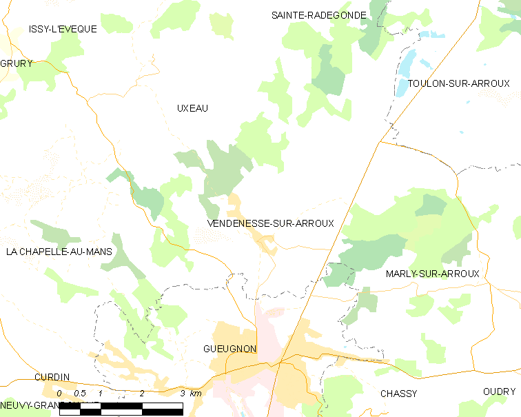 Map of French municipality